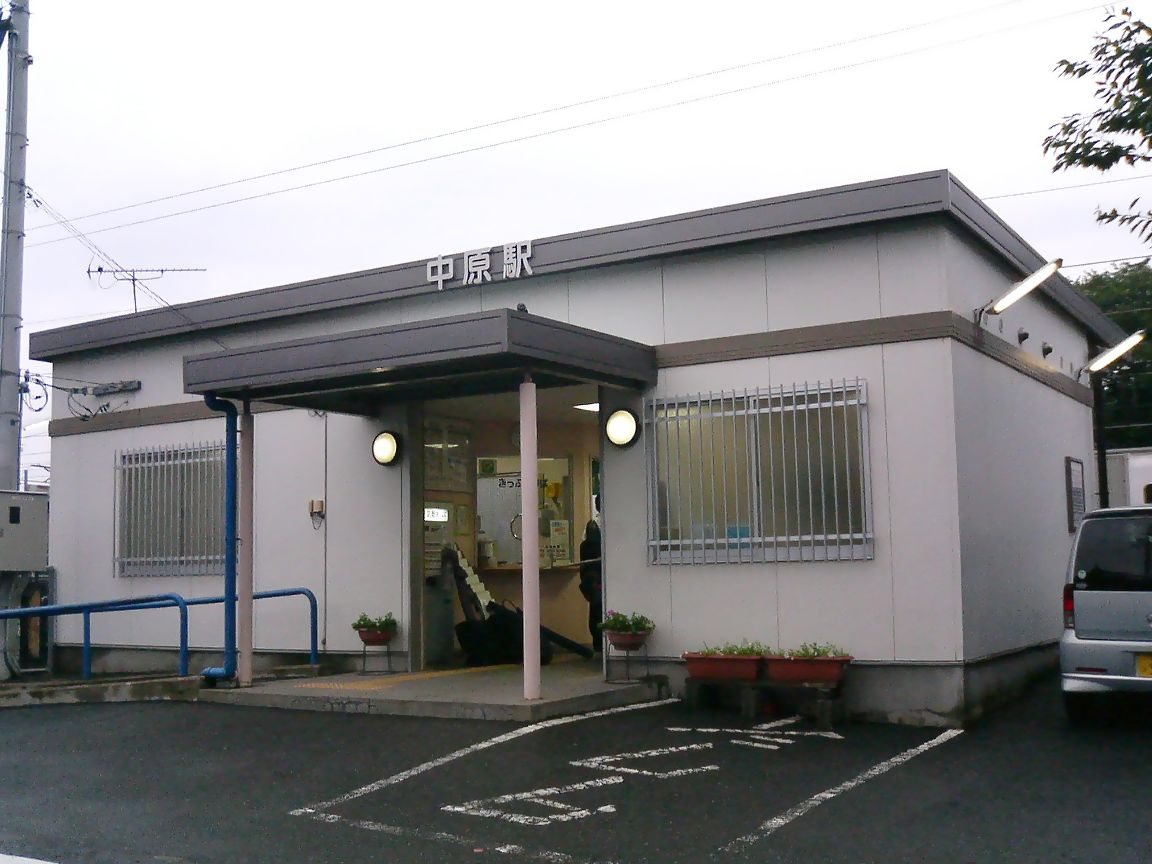 Nakabaru Station, Nagasaki Main Line, Kyushu Railway Company.